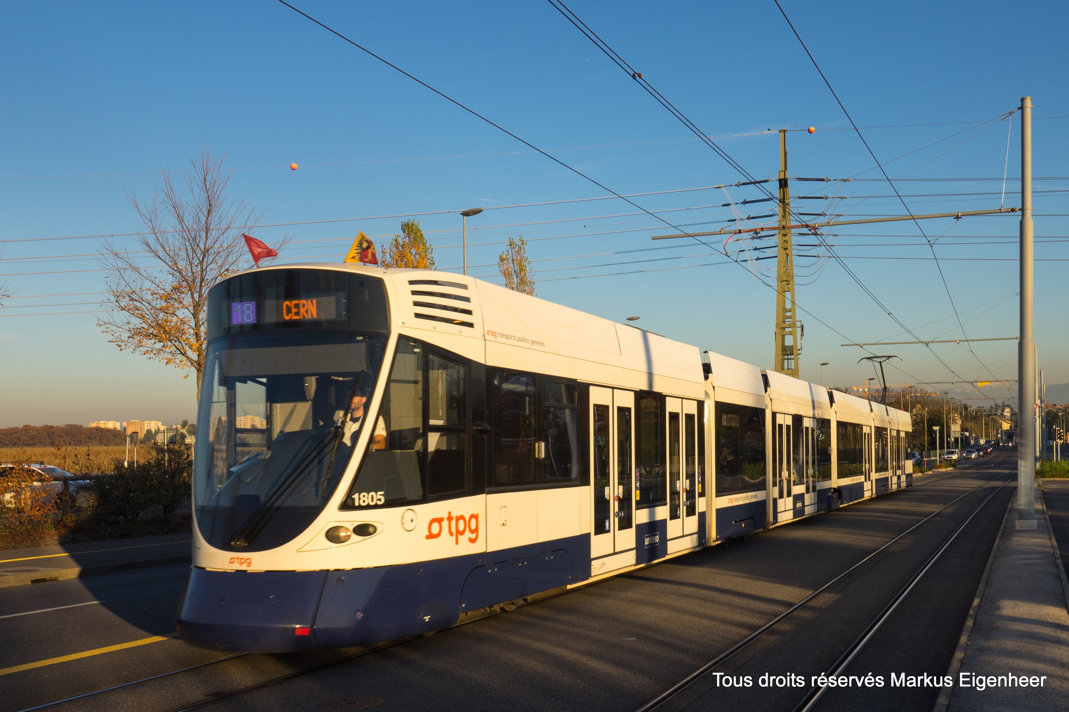 Genève Cern